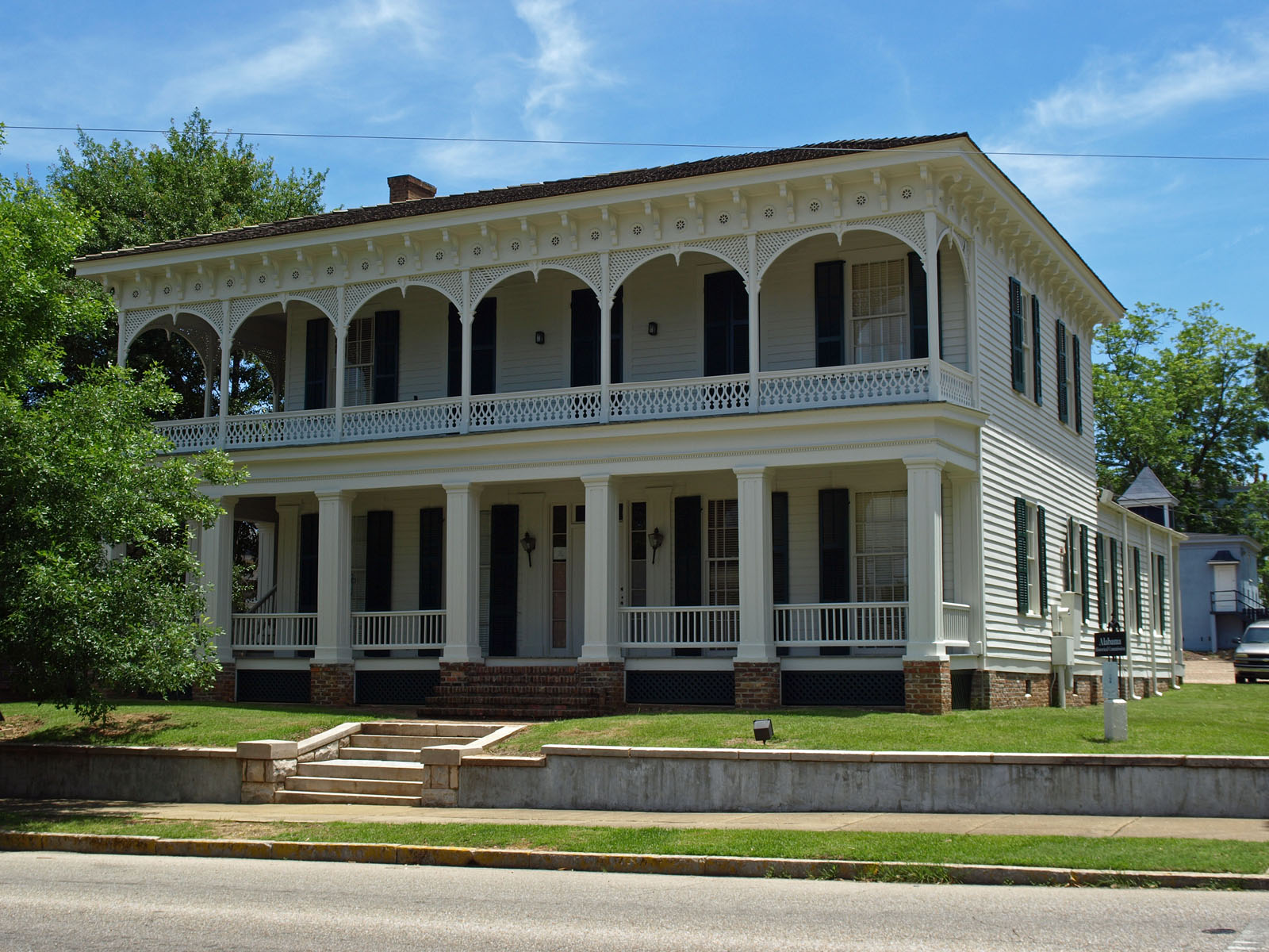 The Rice-Semple-Haardt House on South Perry Street in Montgomery, Alabama.